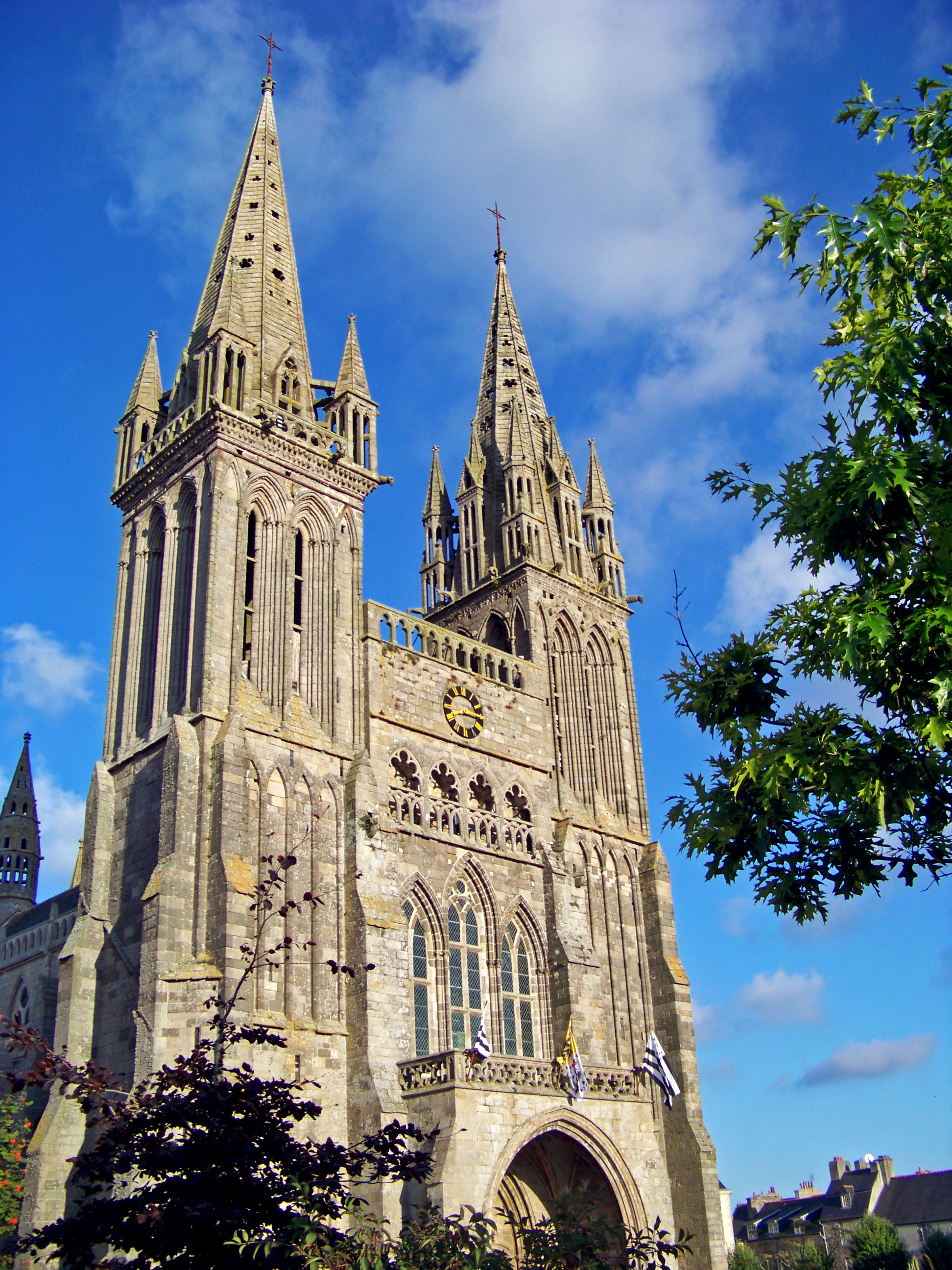 Saint Pol Aurelian cathedral, Kastell Paol, Finistere, Brittany .